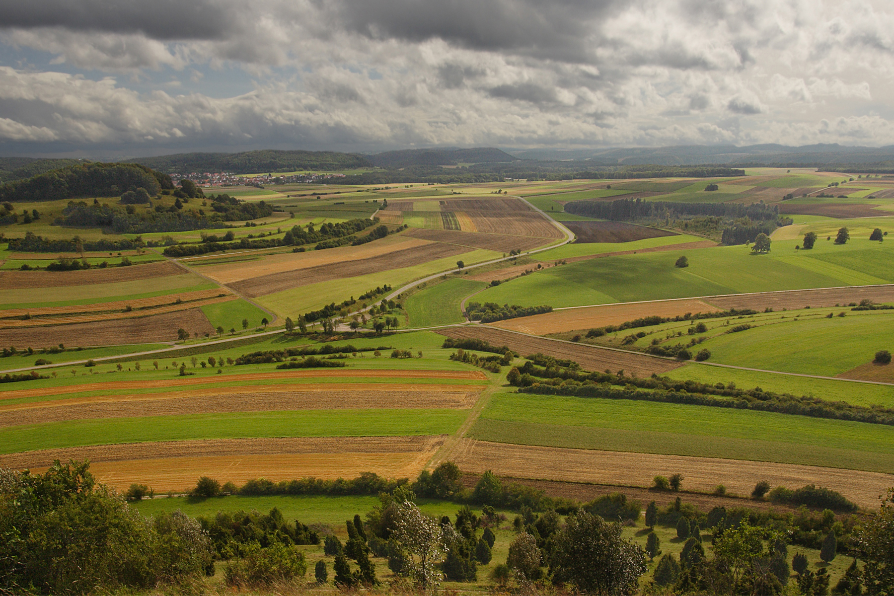 Springtime on the “Heufeld”, middle Swabian Alb, seen from the top of the ]Kornbühl, which is a Butte. The plain Heufeld is completely cultivated by villagers of Ringingen (community of Burladingen). The plain, next to the northern cuesta, is the largest closed area of the so called “Schichtflächenalb”, the second lowest of 8 layers of the upper lithostratigraphic unit of the South German Jurassic (ox2). In the near back: a hill, called Brühl, behind it, the village Ringingen (Burladingen), on the right, faintly visible, the Killertal (valley of river Starzel) and the cuesta. Some of the fields are narrow and bordered by hedges. The slope in the foreground is a Juniper heath.